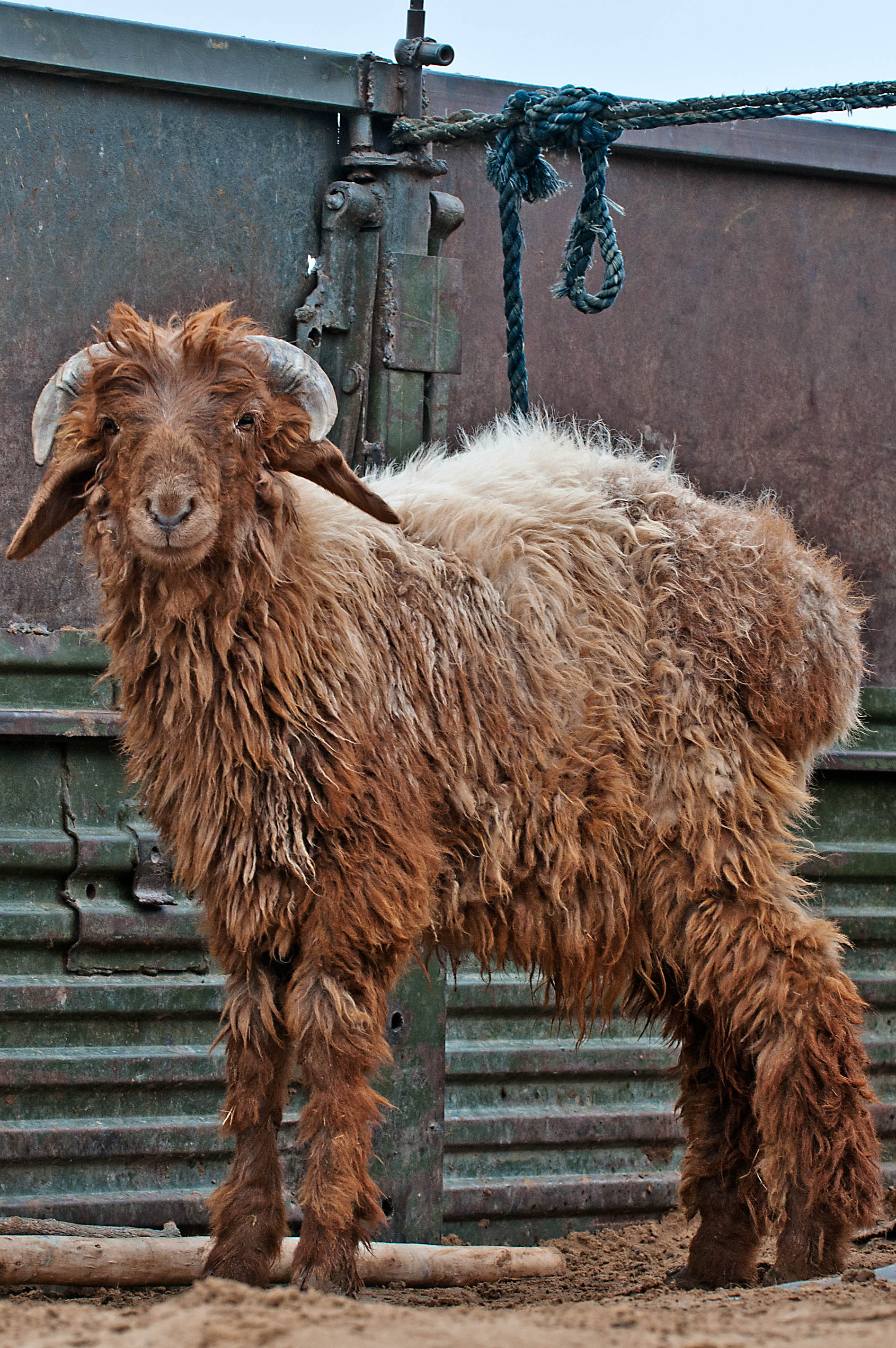 A quick shopping trip, didn't buy any camels but I did get a few hats!